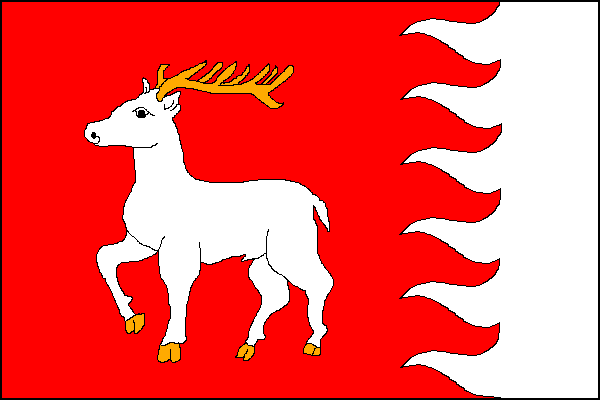 Municipal flag of Kyjovice village, Opava District, Czech Republic.